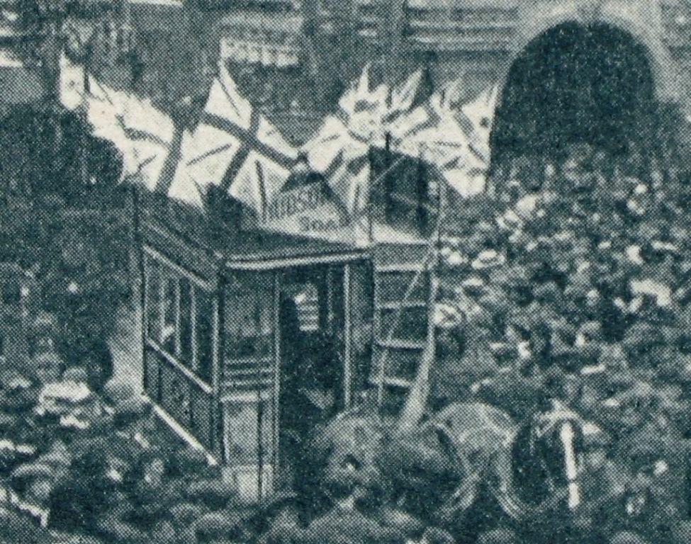 The last horse tram in Exeter, Devon, England, is paraded through the city centre to celebrate the opening of the new electric tram network.